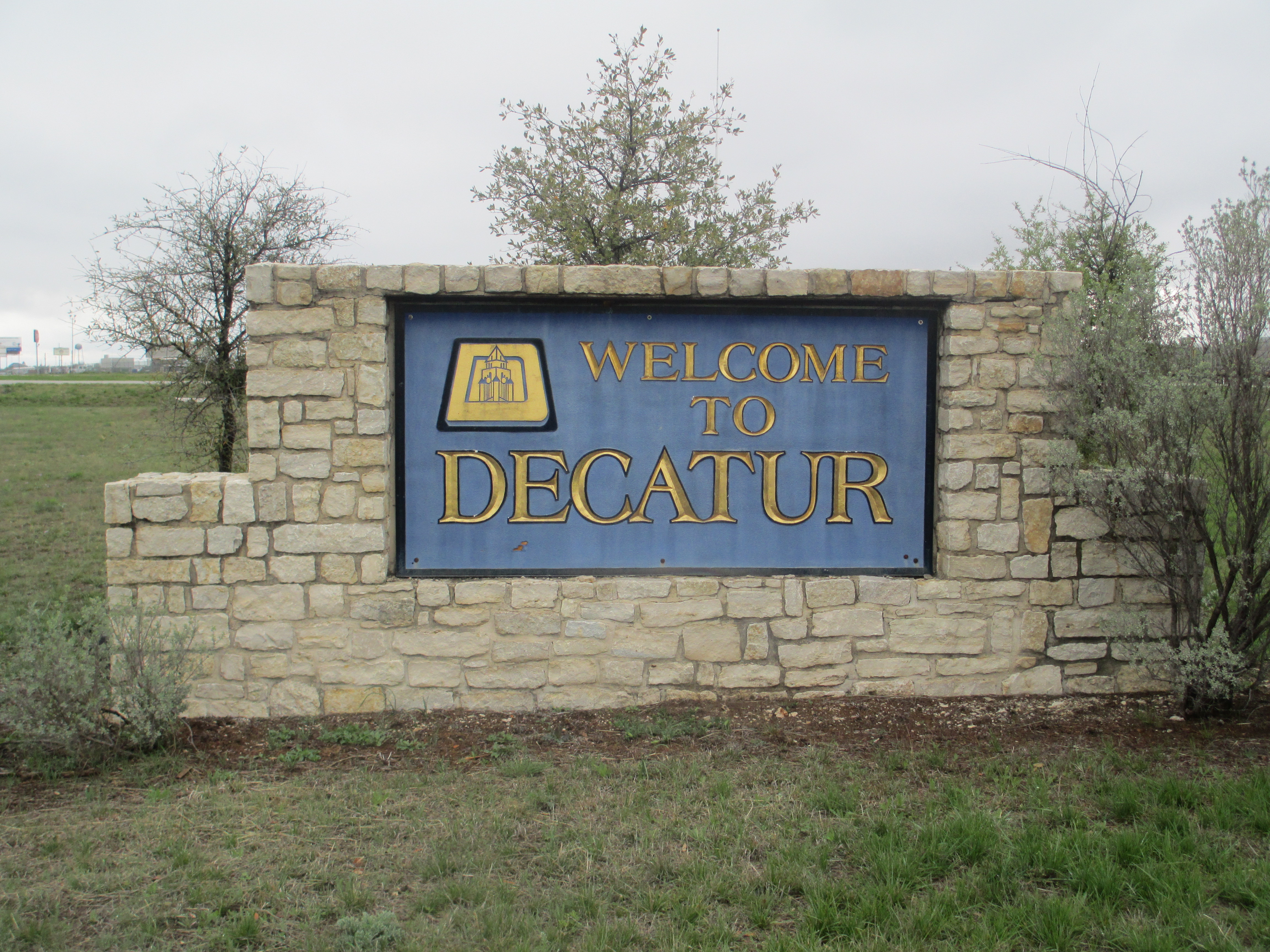 I took photo of Decatur, TX, welcome sign, Canon camera, April 4, 2013. Billy Hathorn (talk) 00:21, 12 April 2013 (UTC)